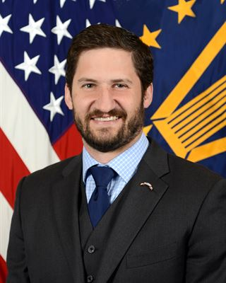 Department of Defense photo of Andrew Exum